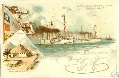 German ships SMS Deutschland (1876) and SMS Gefion (1893), in the left corner Jiaozhou occupied by the Germans. Post card used in 1899.